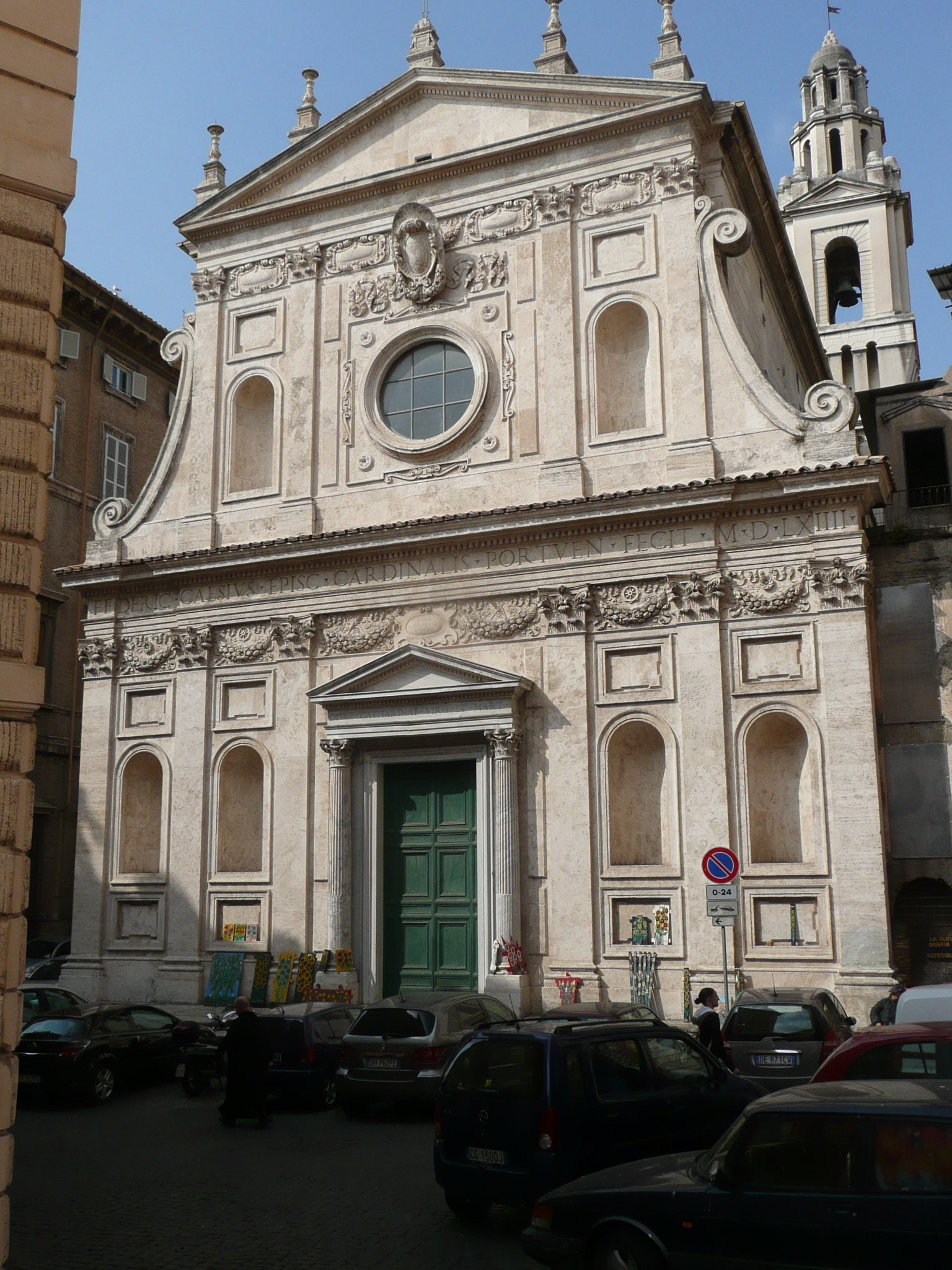 Facade of S. Catarina dei Funari in Rome by Guidetto Guidetti